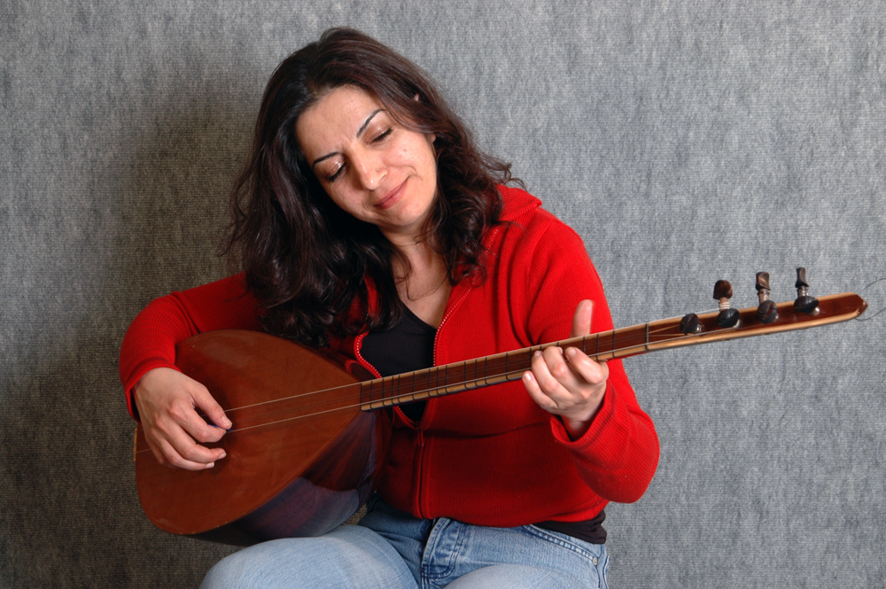 Saz player in Stockholm, Sweden